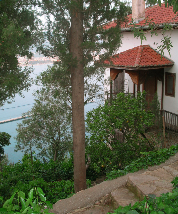 The gardens and side entrance to the McGhee Center for Eastern Mediterranean Studies in Alanya, Turkey.